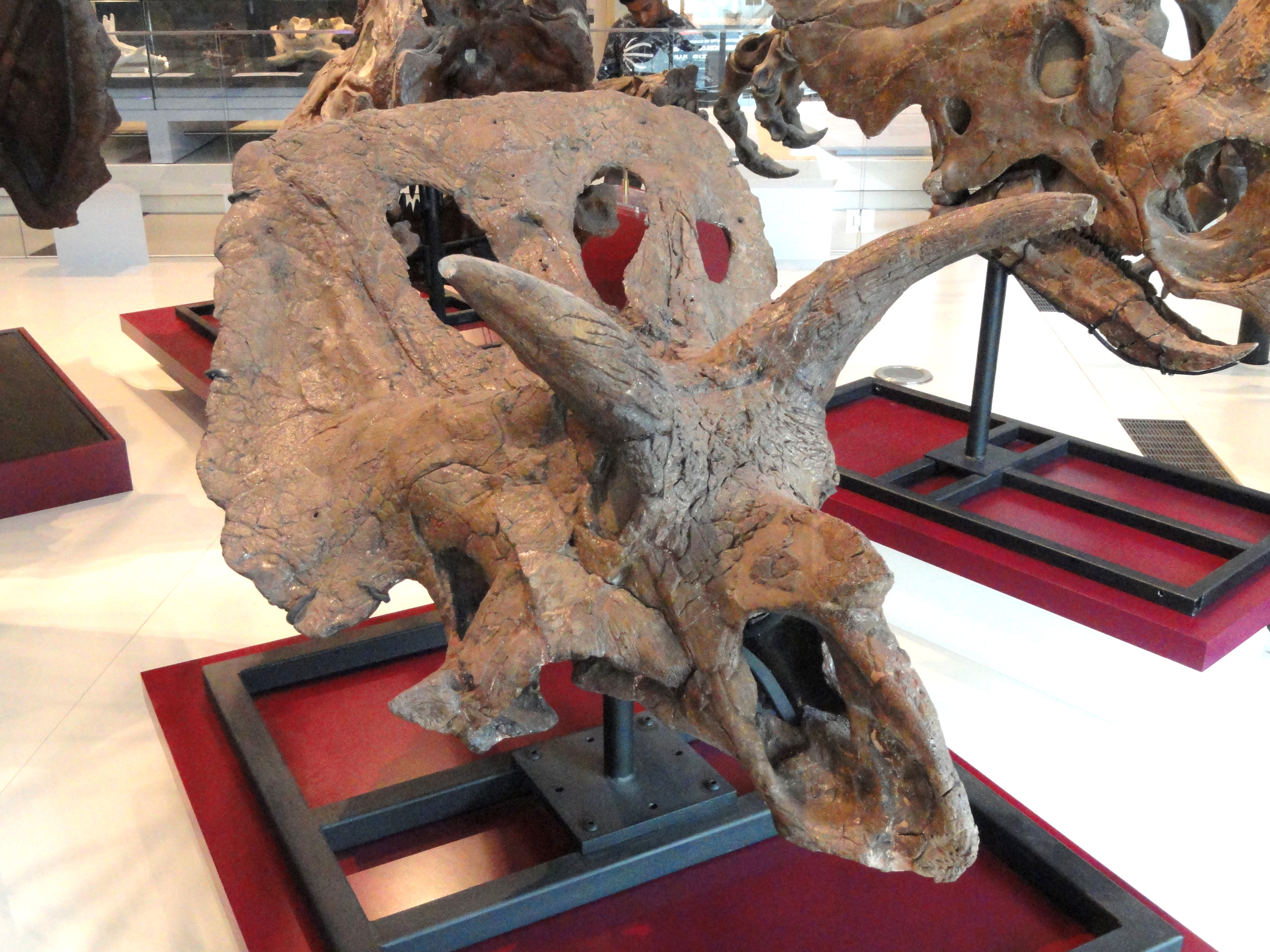 Exhibit in the Royal Ontario Museum, Toronto, Ontario, Canada. This exhibit is old enough so that it is in the public domain, and photography was permitted in the museum. I took this photograph and release it into the public domain.